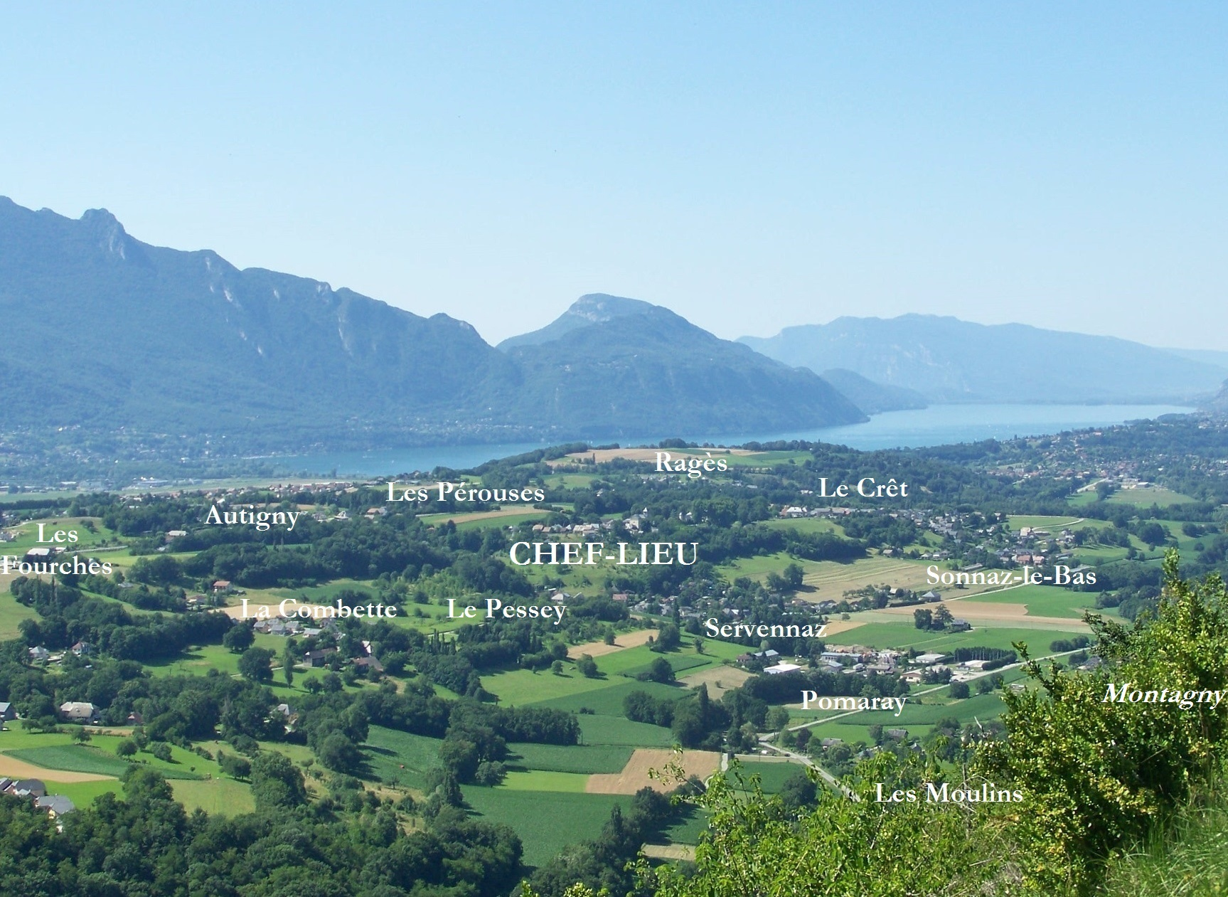 Panoramic sight of the French commune of Sonnaz, near Chambéry and the lac du Bourget lake, in Savoie. Are indicated the head of town (chef-lieu) and most of the commune hamlets visible.